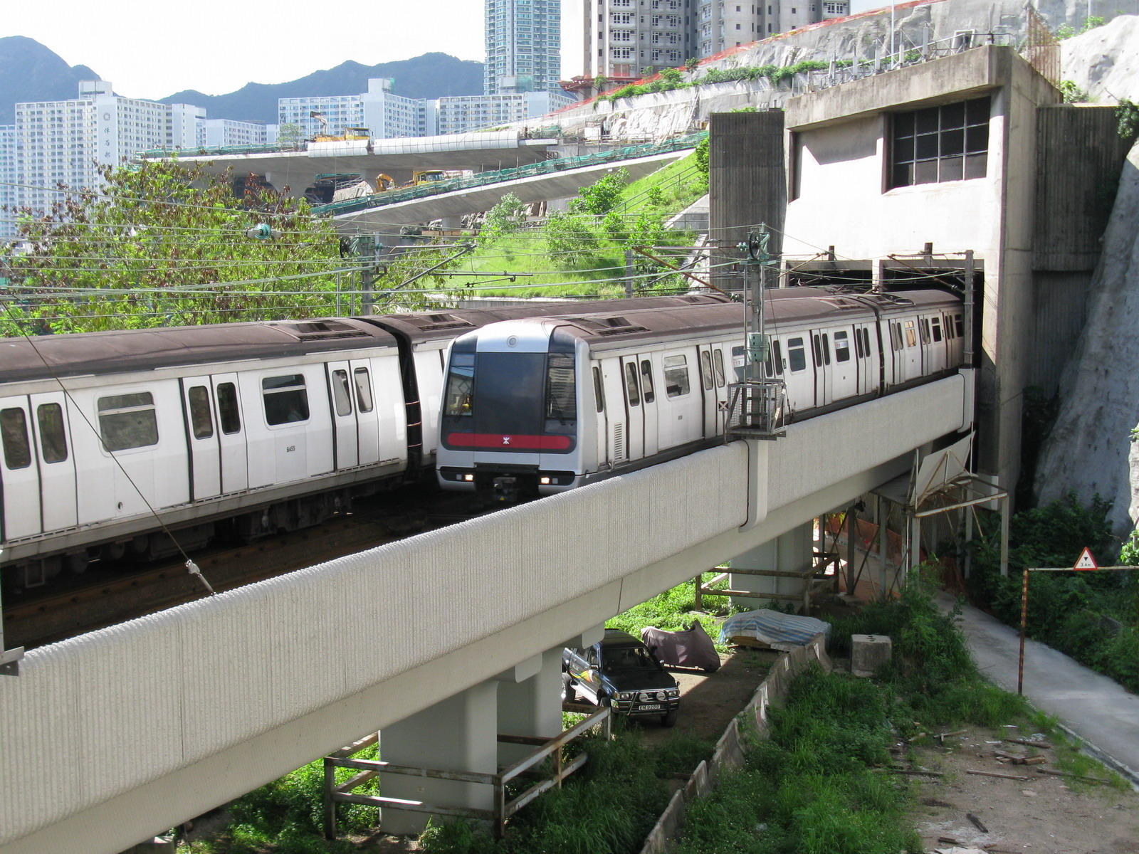 MTR Metro-Cammell Trains, photo taken at Kwun Tong Line Kowloon Bay Station nearby.